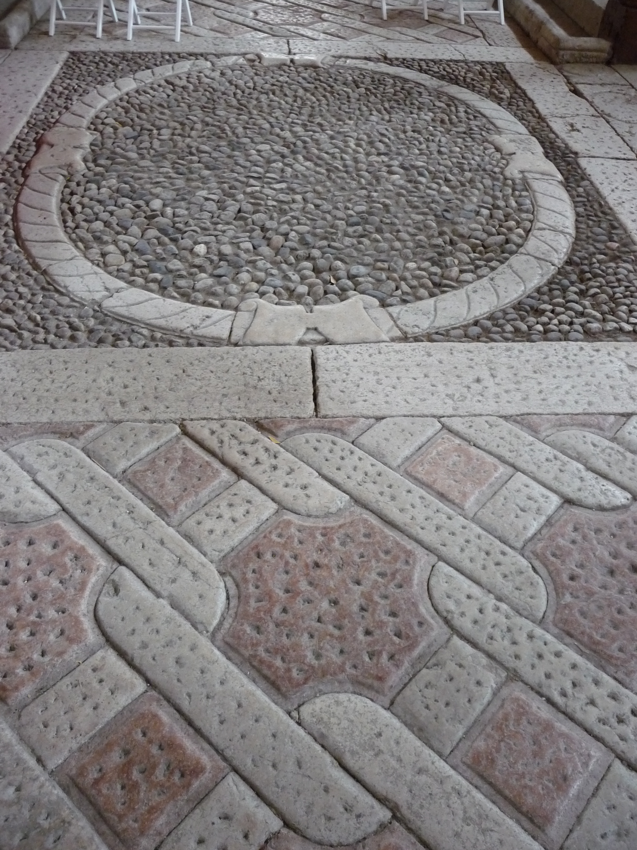 The Villa-Castle Porto Colleoni of Thiene in province of Vicenza.